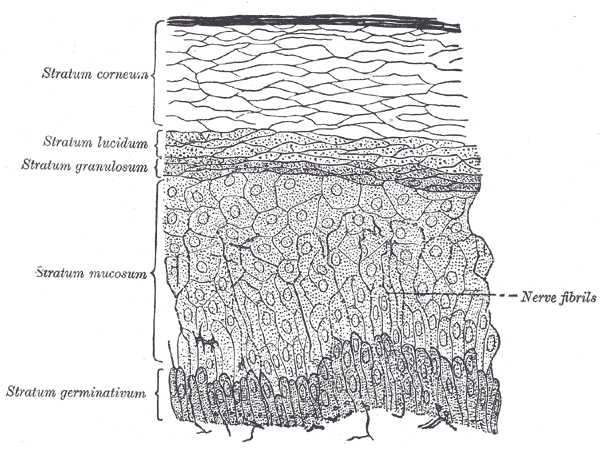 Section of epidermis. (Ranvier.)